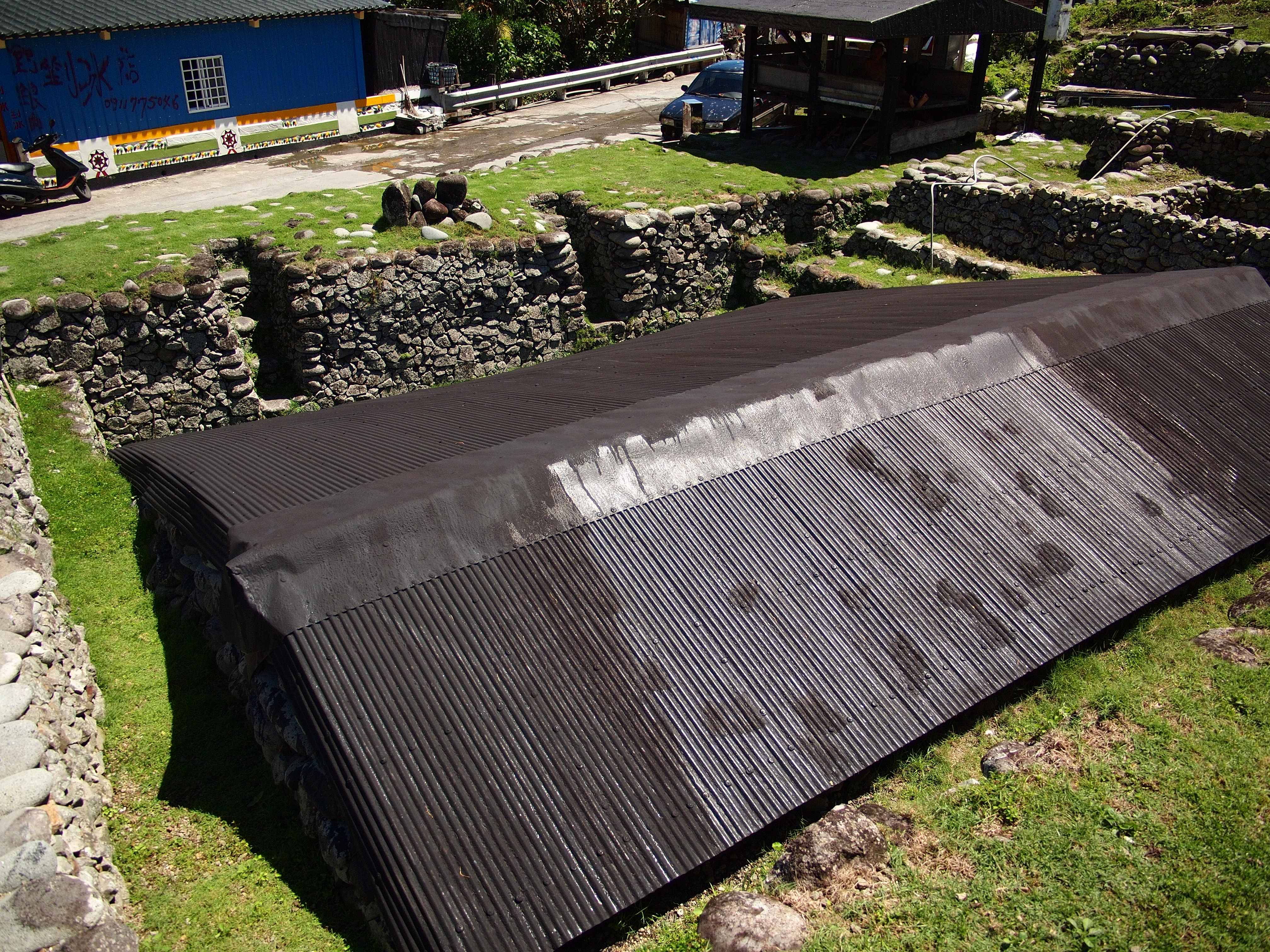 Traditional Tao Building in Orchid Island